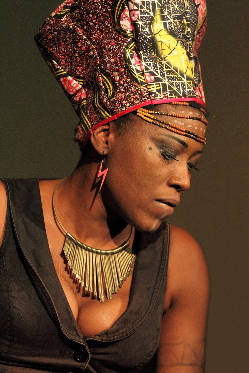 Niasony Live 02